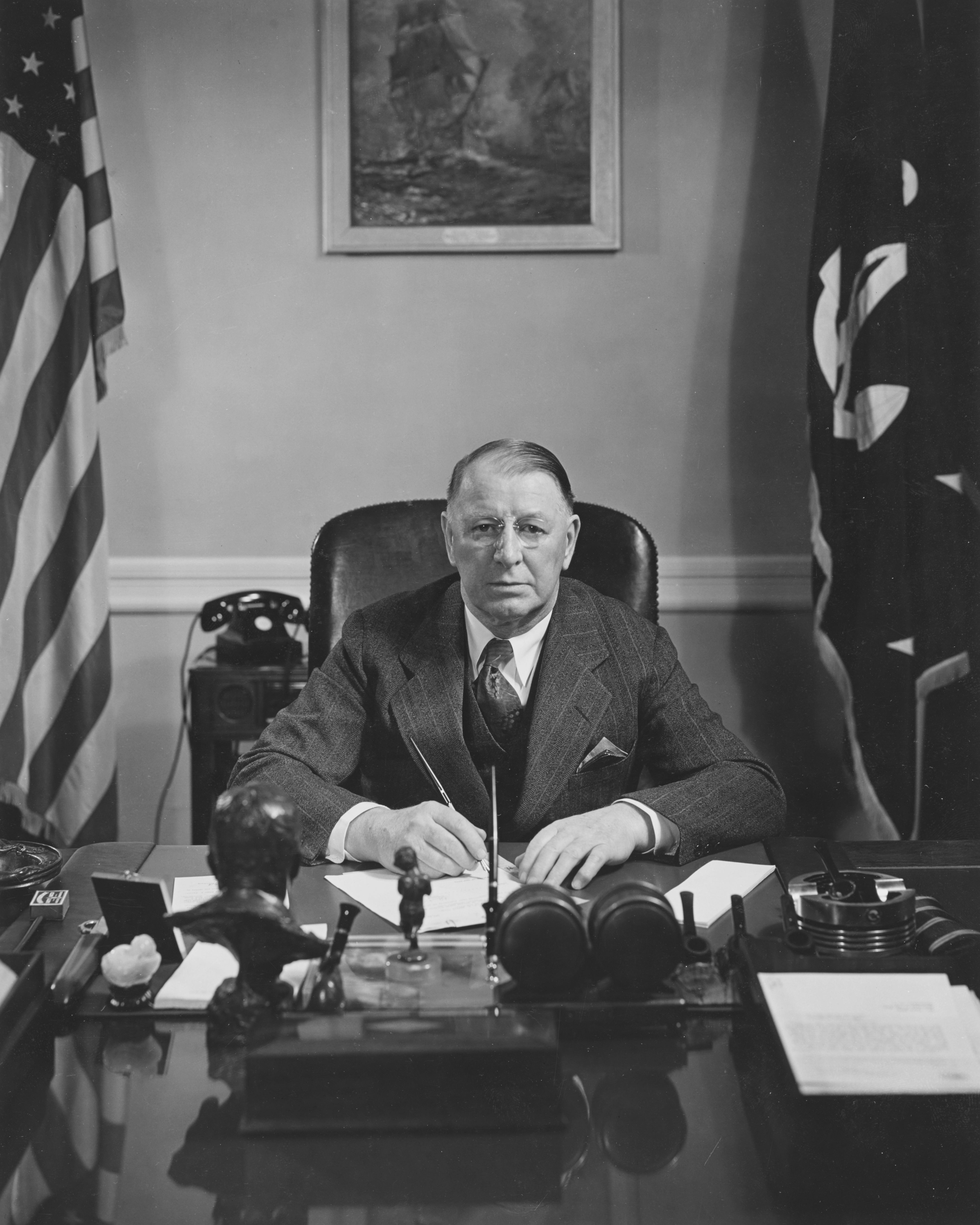 Secretary of the Navy Frank Knox — At his desk in the Navy Department, Washington, D.C., circa 1943.